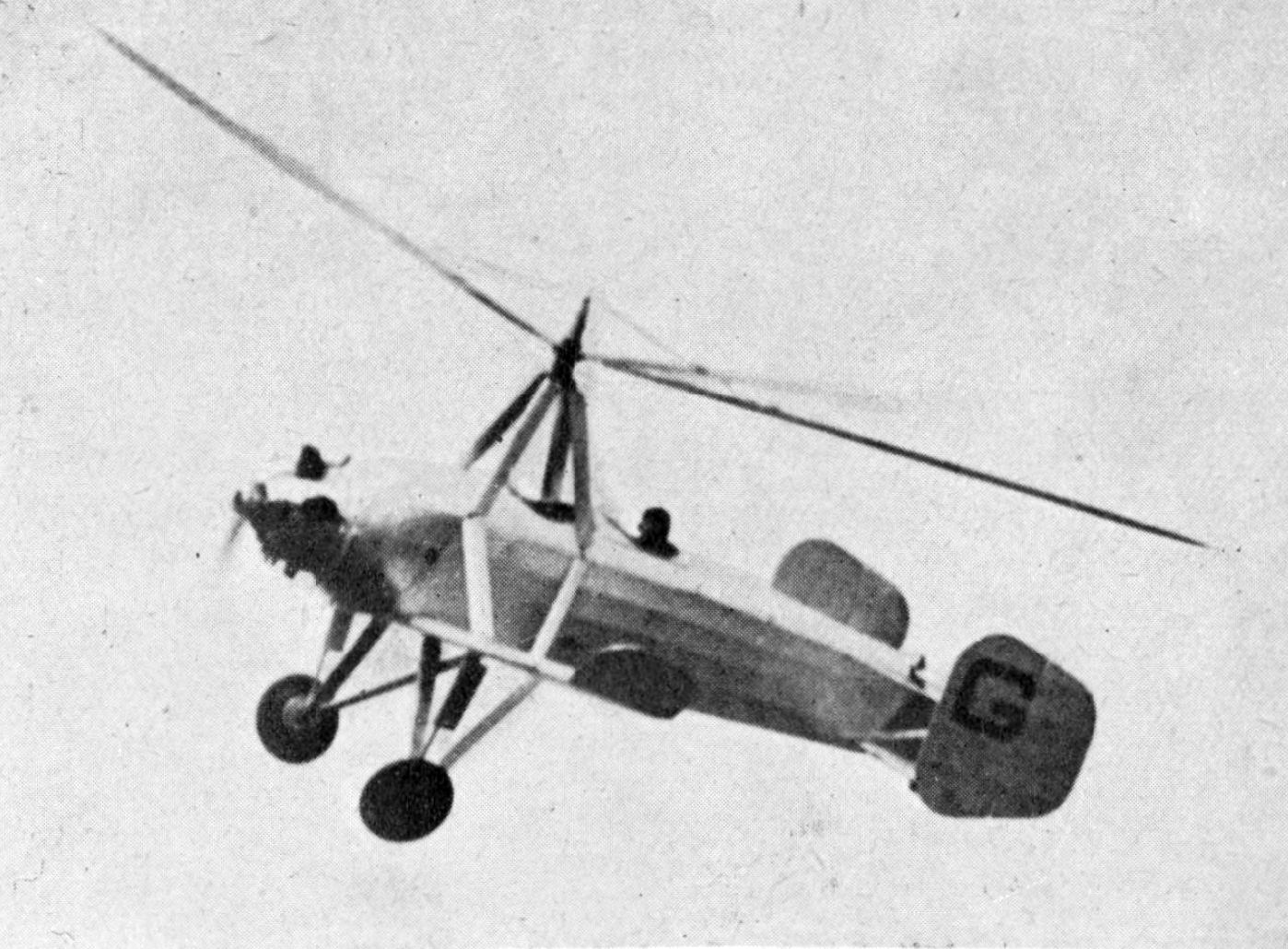 Cierva C.19 in flight. Photo from L'Aéronautique October,1929